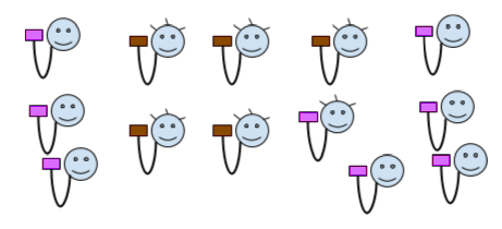 A collective decision of 13 voters in a deliberative assembly. Result: 8 votes for X (purple) and 5 votes for Y (brown). X option wins, because it has a majority (more than half).